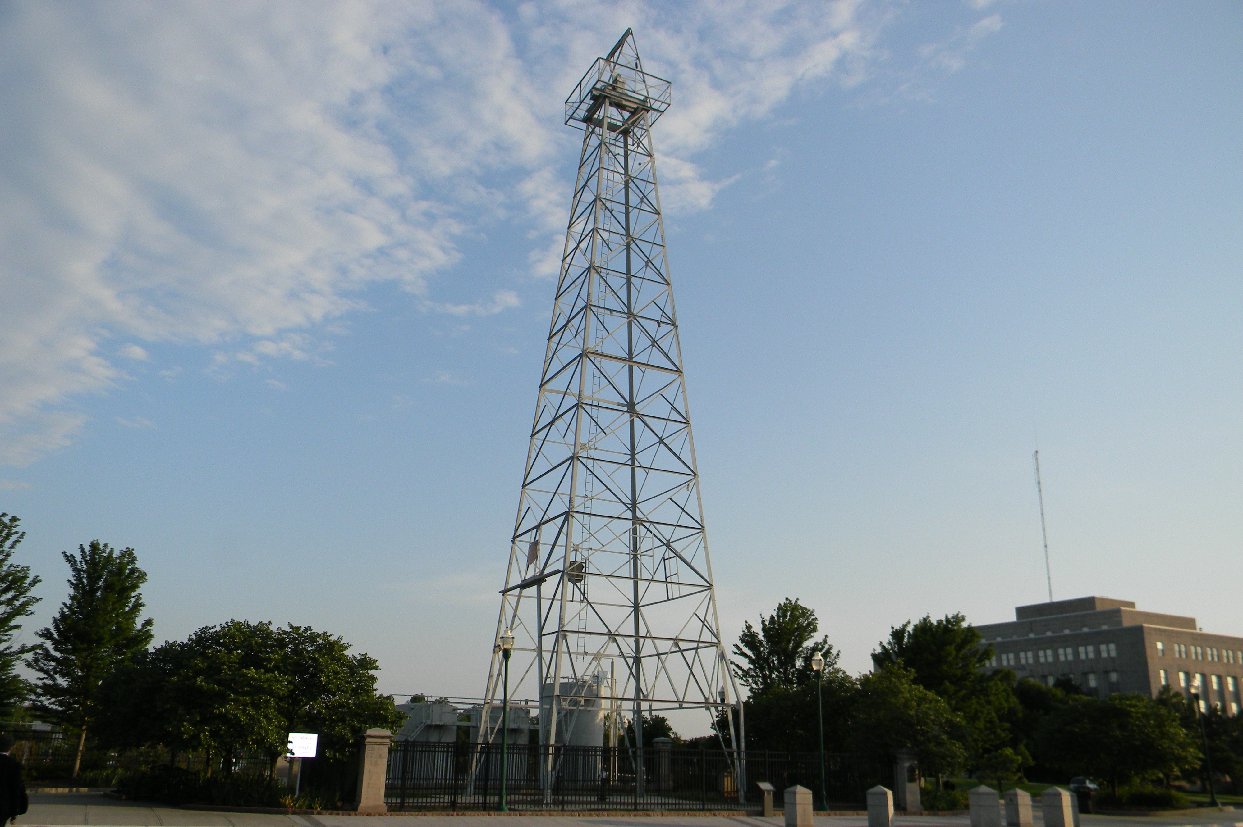 This Oil rig is in front of the Oklahoma State Capitol and is nicknamed Petunia #1.